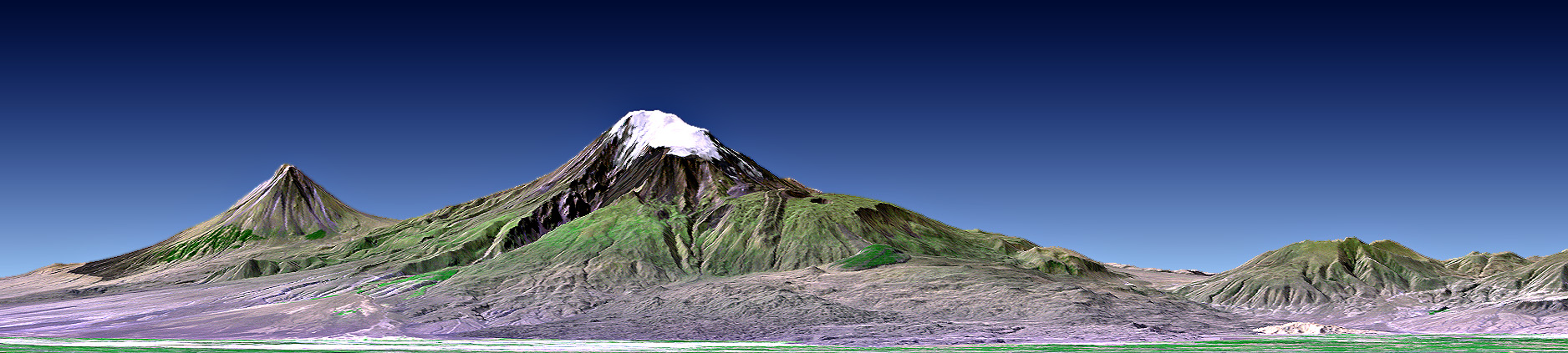 Ararat (NASA) Mount Ararat, Turkey, Perspective with Landsat Image Overlay Original Caption Released with Image: This perspective view shows Mount Ararat in easternmost Turkey, which has been the site of several searches for the remains of Noah's Ark. The main peak, known as Great Ararat, is the tallest peak in Turkey, rising to 5165 meters (16,945 feet). This southerly, near horizontal view additionally shows the distinctly conically shaped peak known as "Little Ararat" on the left. Both peaks are volcanoes that are geologically young, but activity during historic times is uncertain. Mission: Shuttle Radar Topography Mission (SRTM) Spacecraft: Space Shuttle Instrument: C-Band Imaging Radar X-Band Radar Product Size: 1876 samples x 423 lines Produced By: JPL View Size: 124 kilometers (77 miles) wide, 148 kilometers (92 miles) distance Location: 39.7 degrees North latitude, 44.3 degrees East longitude Orientation: Looking South, 2 degrees down from horizontal, 1.25X vertical exaggeration Image Data: Landsat Bands 1, 2+4, 3 as blue, green, red respectively Date Acquired: February 2000 (SRTM), August 31, 1989 (Landsat)